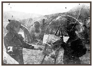 Serbian war artist in the Great War Srpski (latinica): Srpski ratni slikar u Velikom ratu